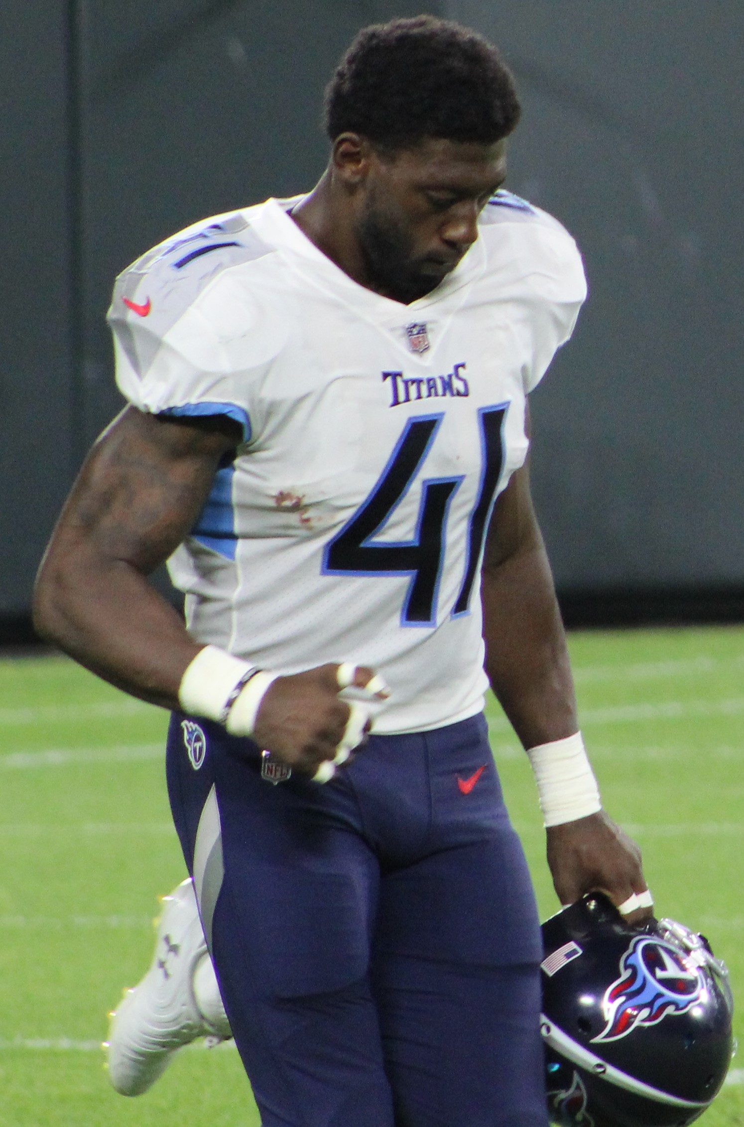 Brynden Trawick, Tennessee Titans at Green Bay Packers (Preseason), August 9, 2018